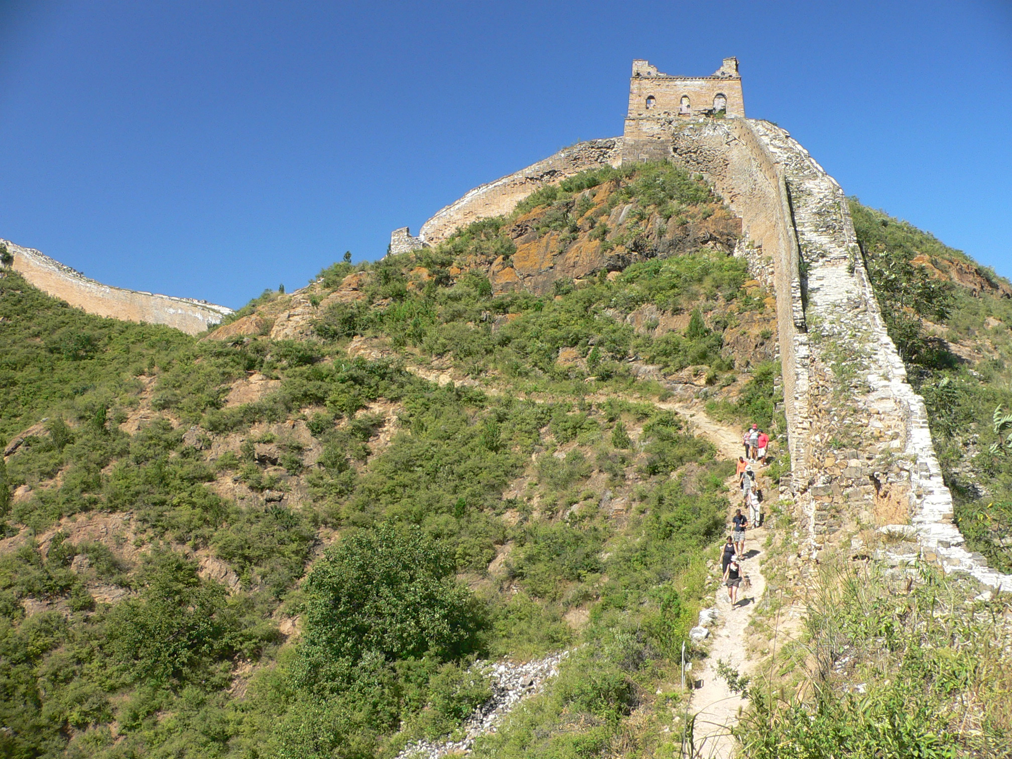 Great Wall, China